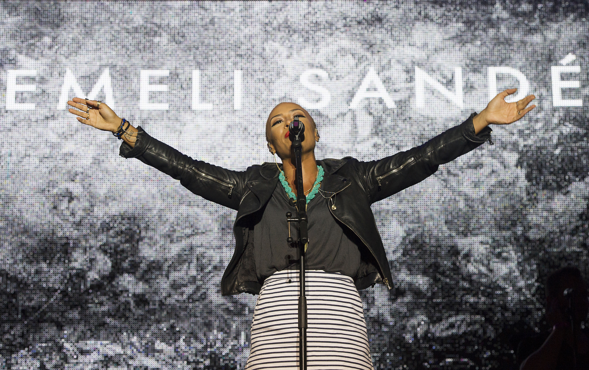 2013 Gibraltar Music Festival